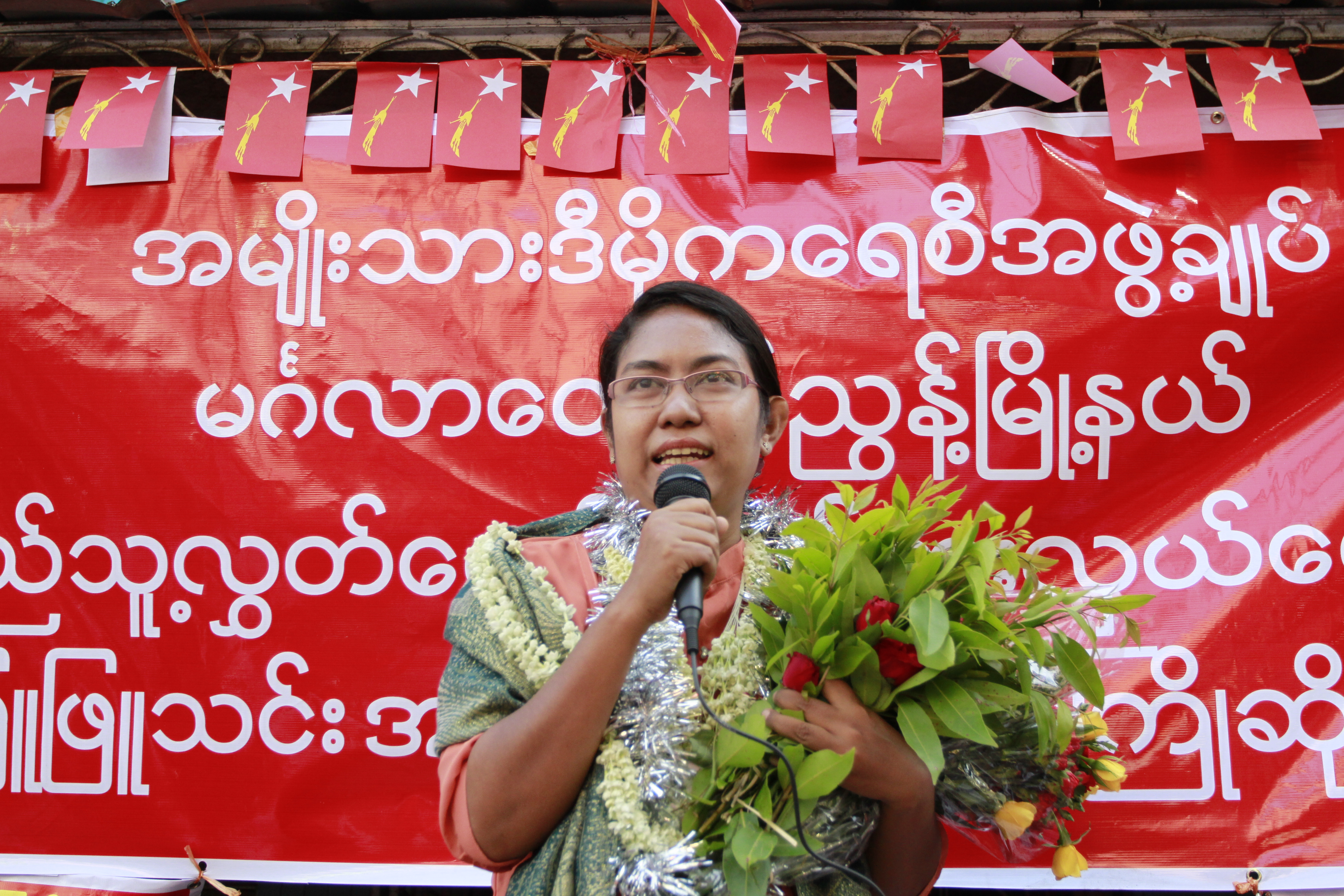 Phyu Phyu Thin, candidate of National League for Democracy (NLD) Party for Mingalartaungnyunt township and founder of Phyu Phyu Thin's HIV/AIDS hospice, gives speech to the supporters during her political campaign trip in Mingalartaungnyunt township in Yangon, Myanmar on 28 February 2012.